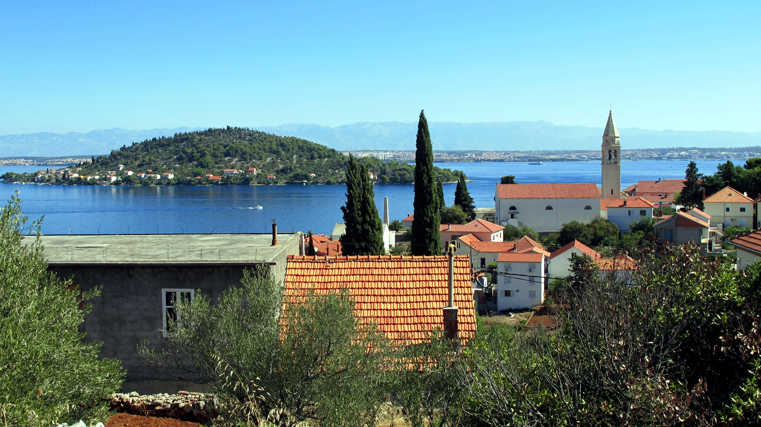 The village of Kali, Croatia, with the Svt Lovre church and the Osljak